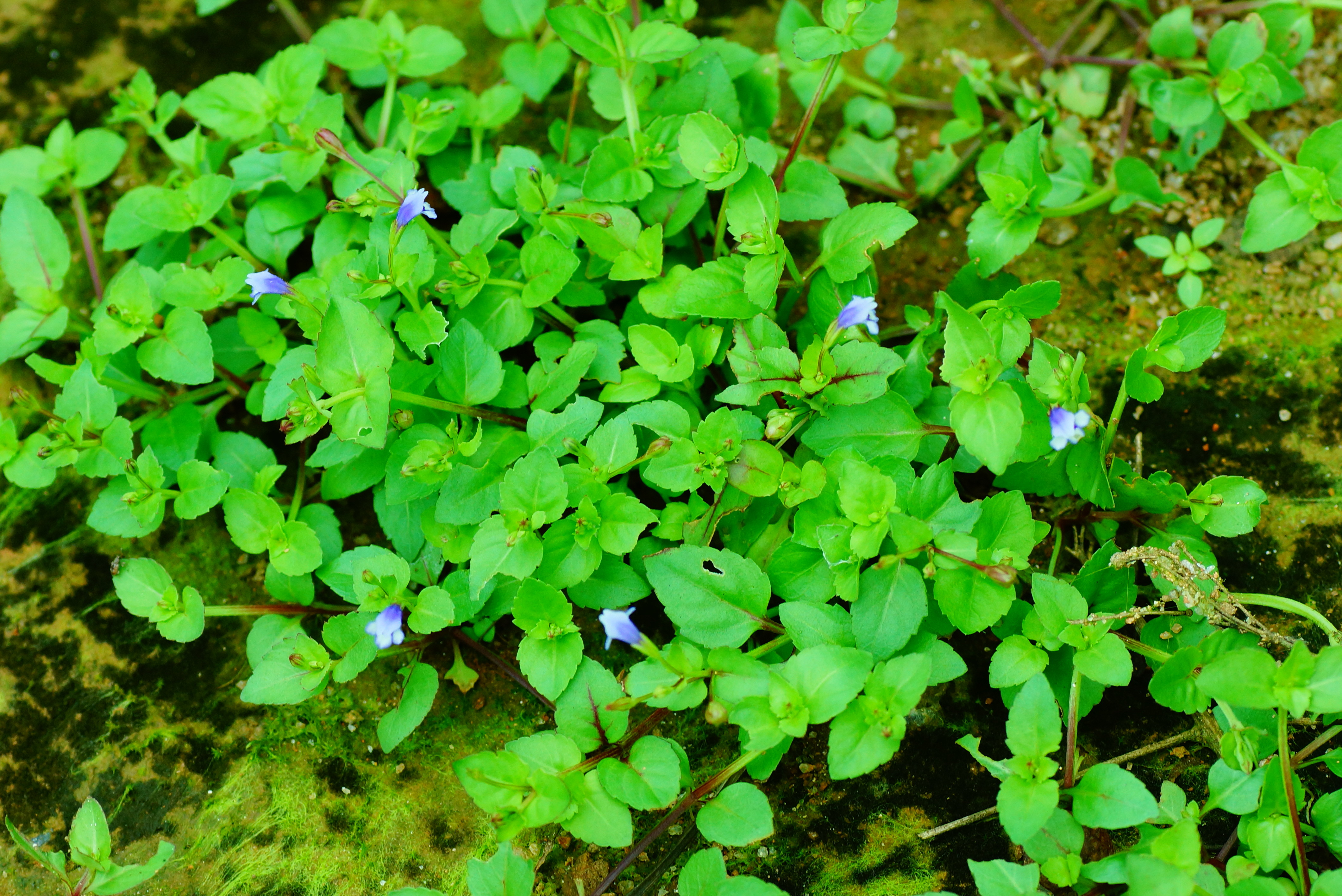 Lindernia crustacea